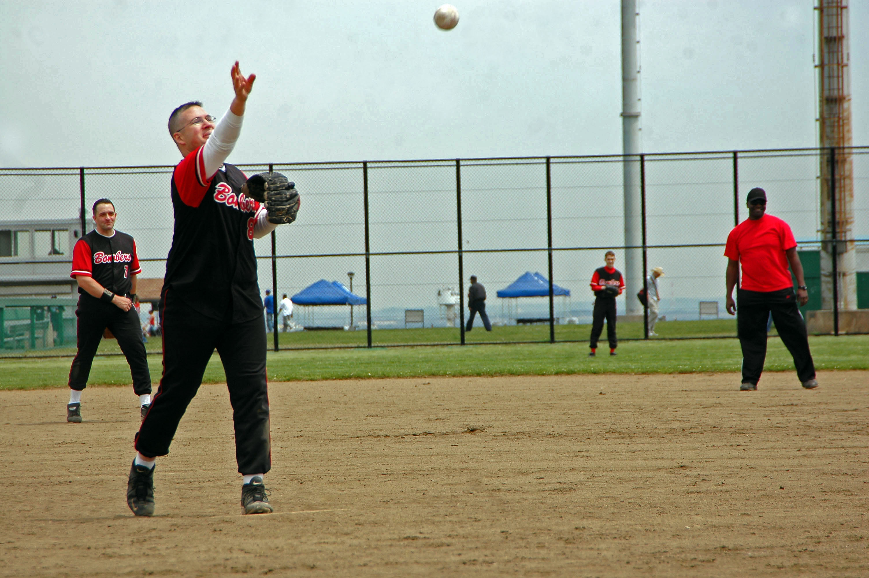 YOKOSUKA, Japan (April 27, 2007) – Lt. Arthur Keenan, from New York, pitches during a softball tournament held during USS Kitty Hawk's (CV 63) 46th birthday party and picnic. Kitty Hawk Sailors enjoyed a variety of events including softball tournaments, games and a barbeque. Kitty Hawk is the Navy's only overseas-based aircraft carrier and operates out of to Yokosuka, Japan. U.S. Navy photo by Mass Communication Specialist Seaman Kyle D. Gahlau (RELEASED)